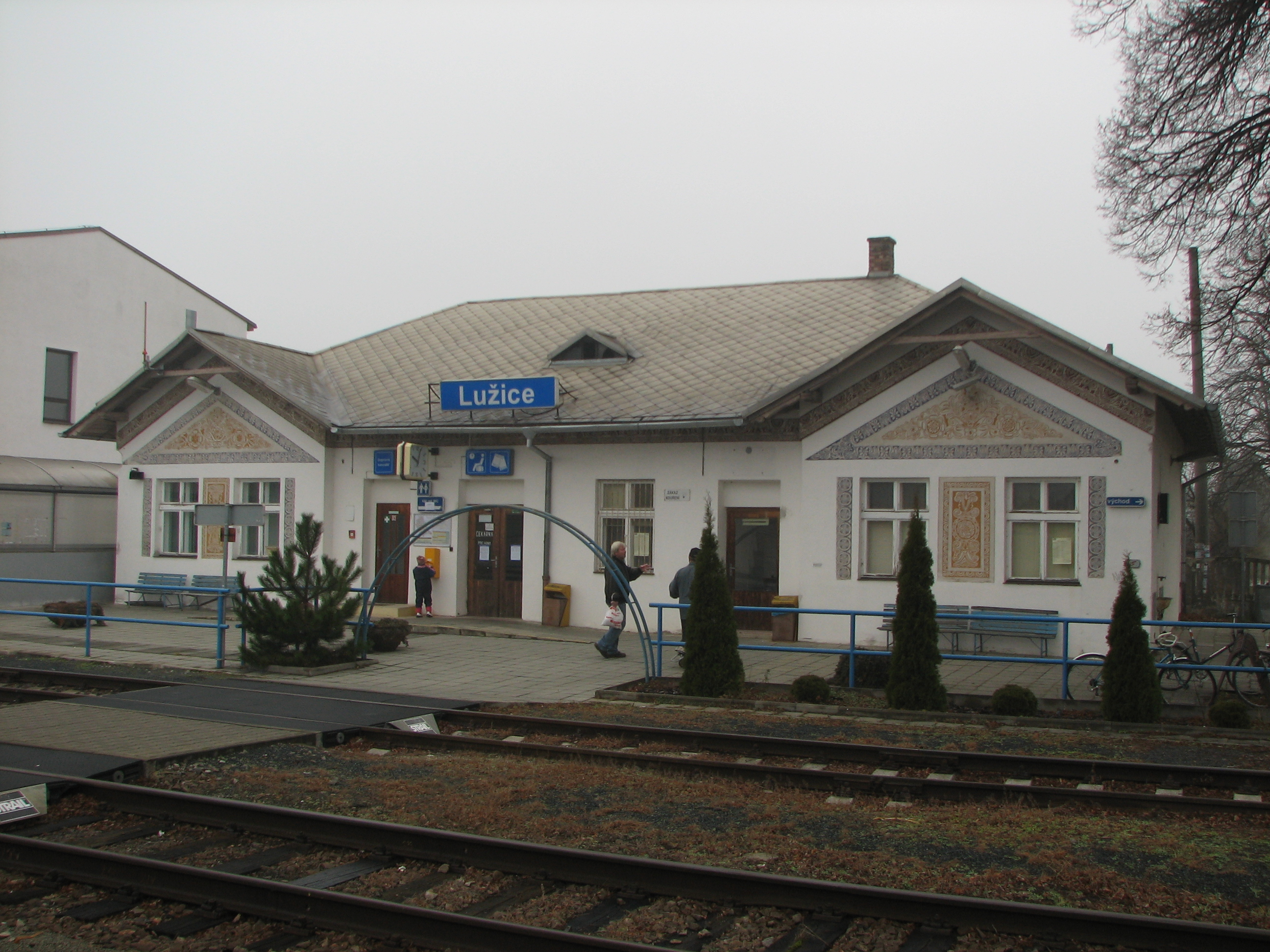 Lužice train station, Hodonín District, Czech Republic